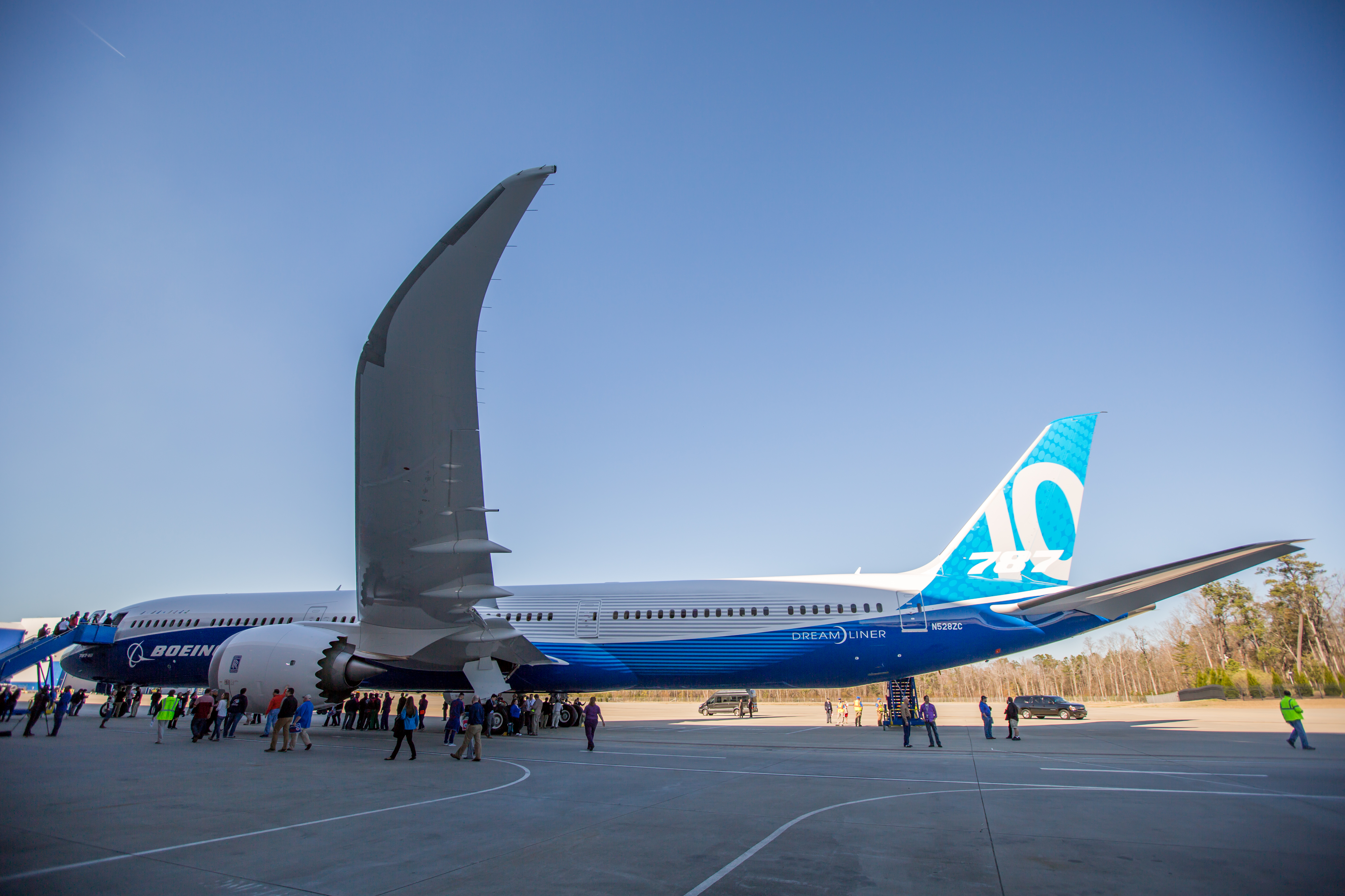 On February 17, 2017, Boeing South Carolina in North Charleston, SC rolled out the first 787-10. US President Donald Trump (POTUS) was in attendance at the ceremony. The 787-10 will be built exclusively in North Charleston, SC. Photo by Ryan Johnson